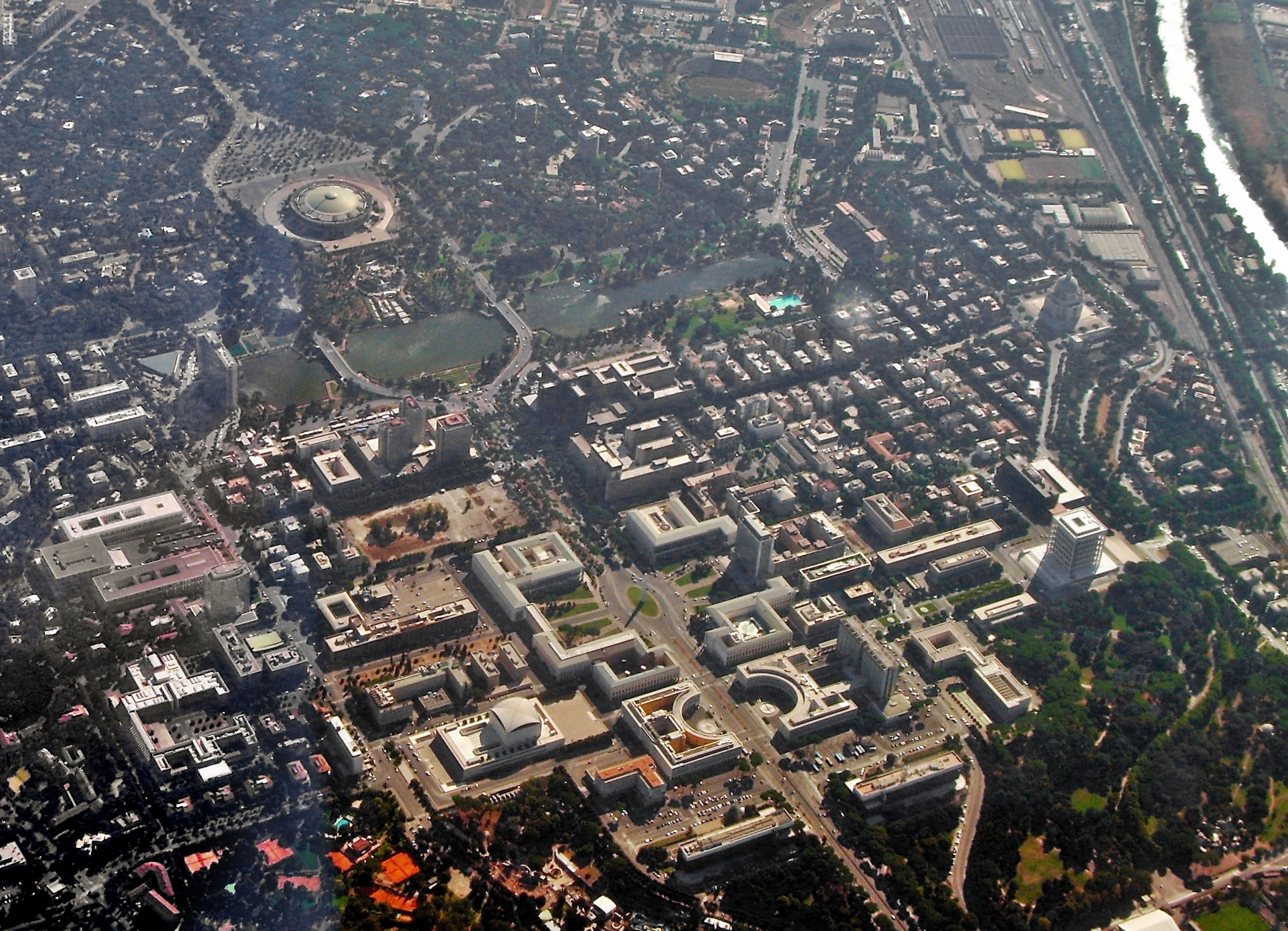 view of the EUR area of Rome from the airplane 2007. I improved the original pic; if you can do better, e.g. removing the blue shadow on left, feel free to overwrite this pic